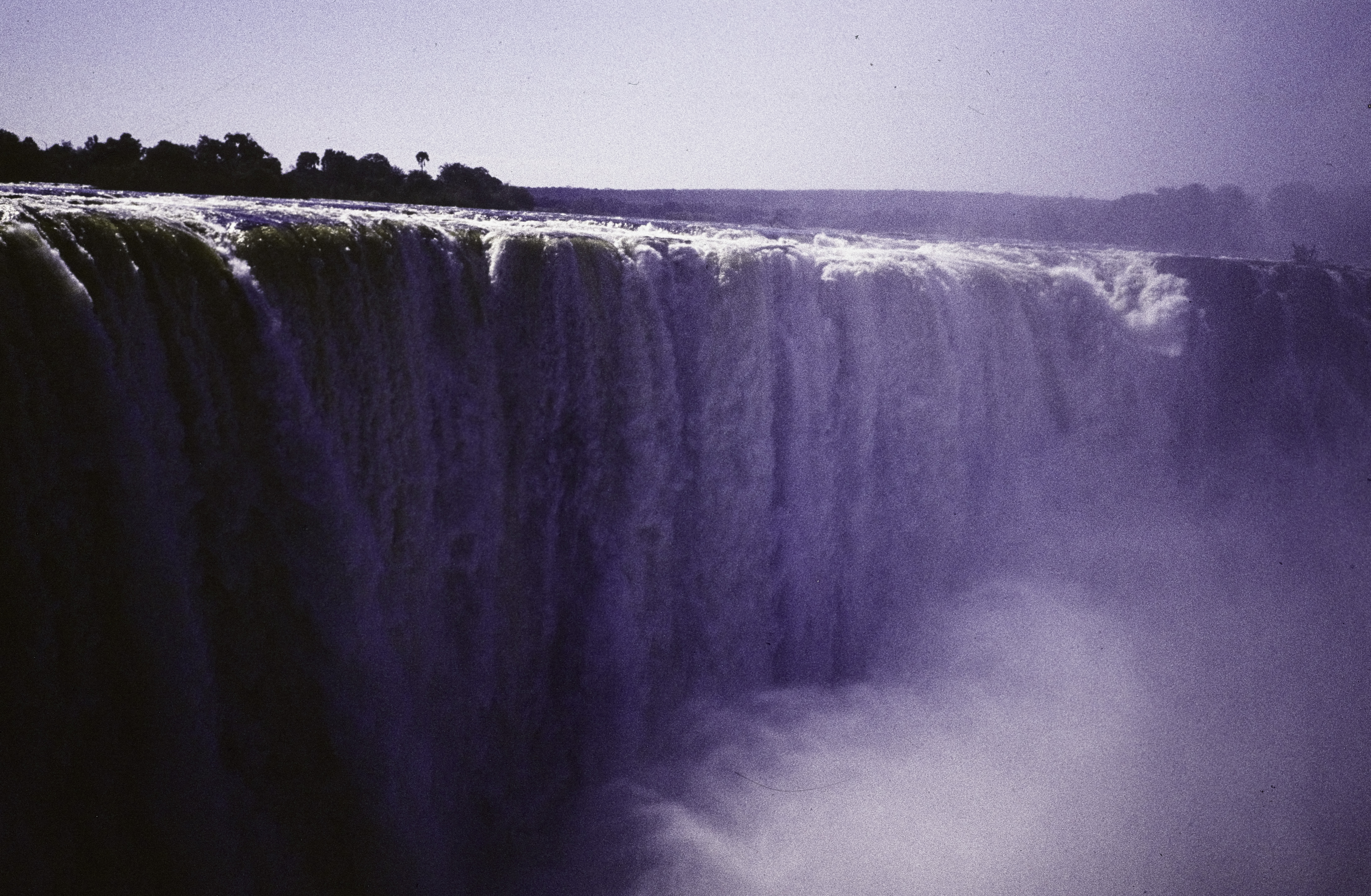 Victoria Falls waterfall.